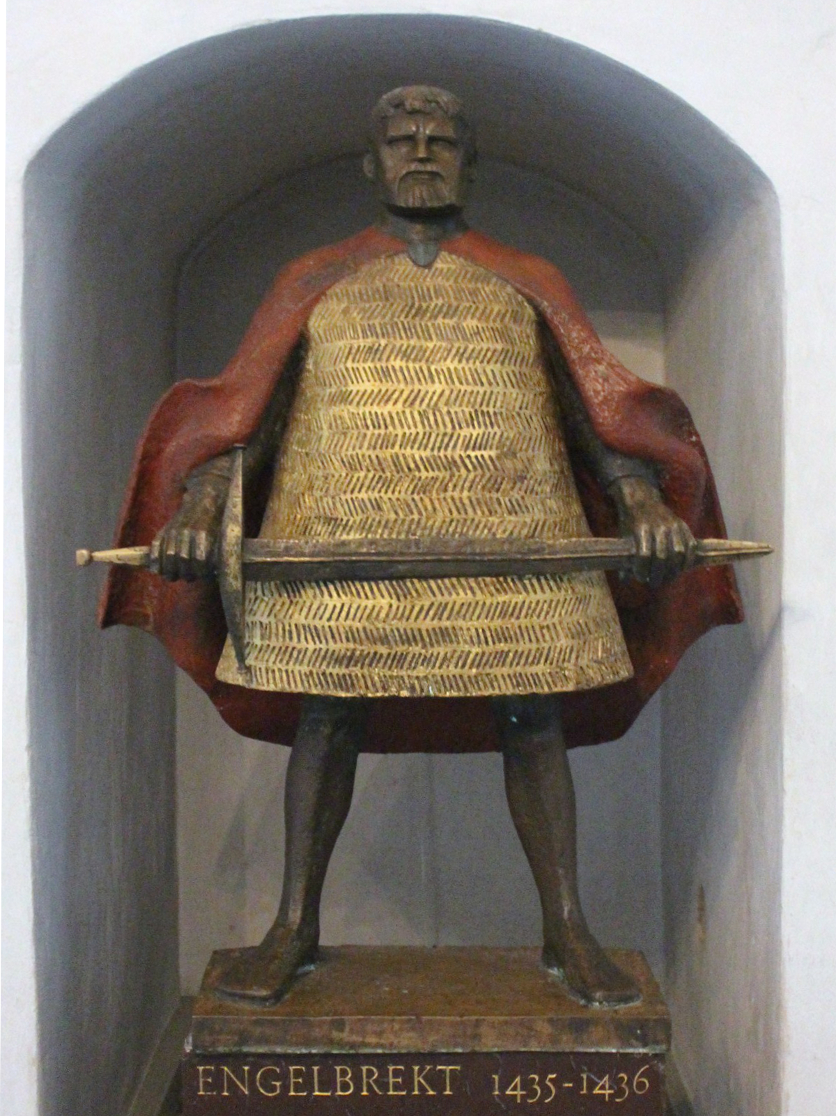 Statue at Örebro castle, depicting Engelbrekt Engelbrektsson